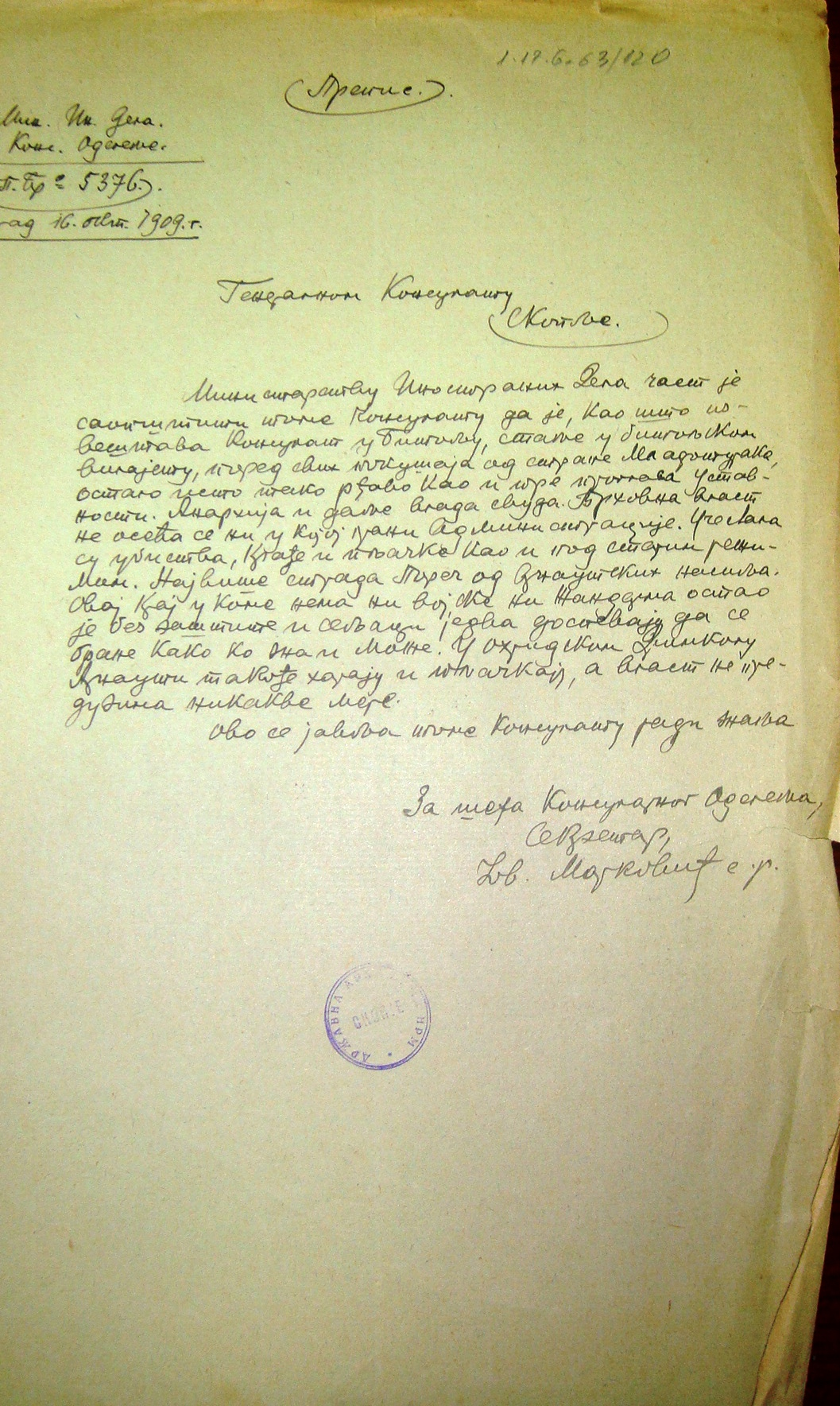 Report about anarchic situation caused by Arnaut movement and terror in the Bitola Vilayet. (16 October 1909) This media file is produced by Wikipedian in Residence in Category:Wikipedian in Residence at DARM in 2016.